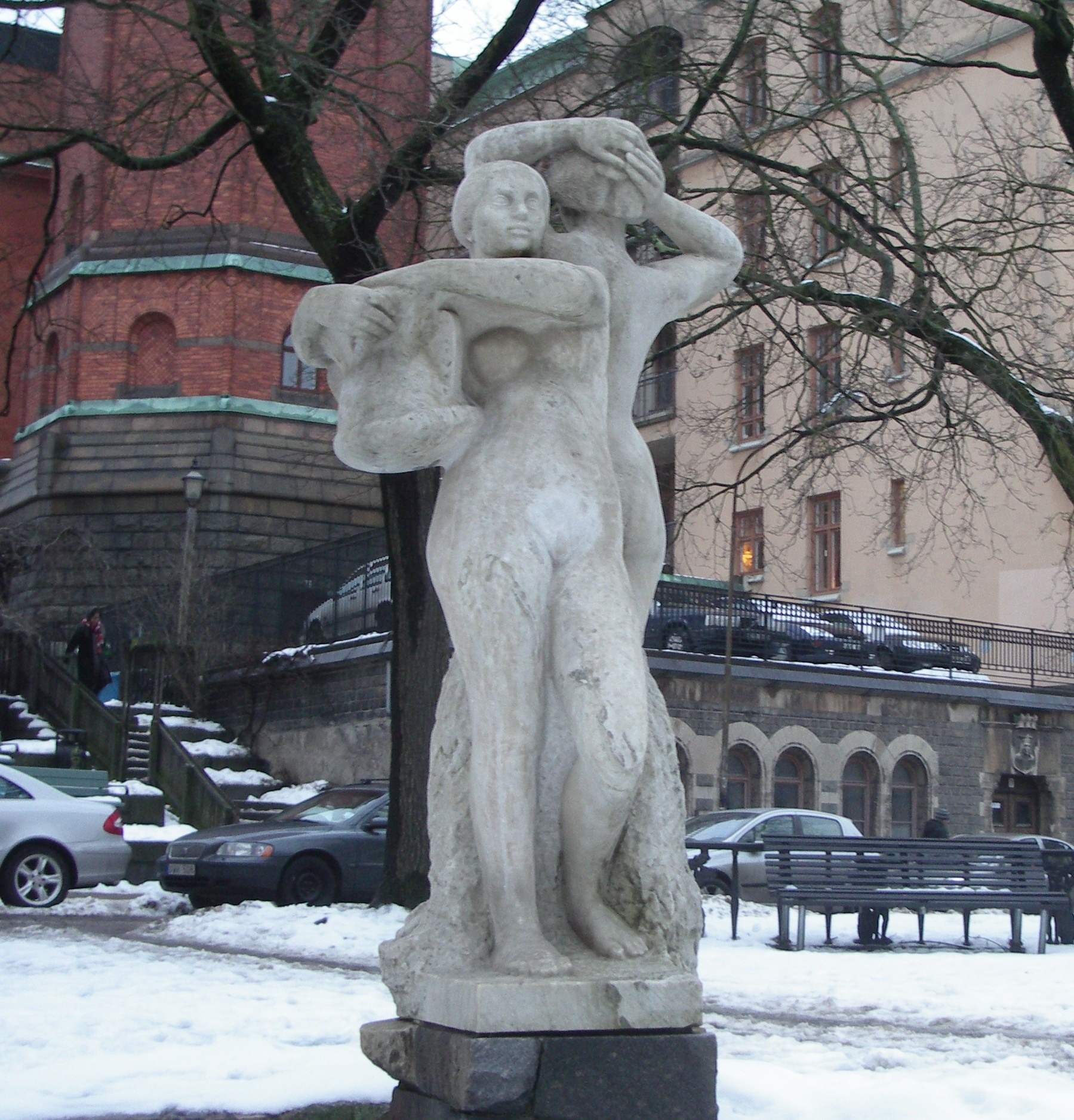 Nils Sjögren´s The Sisters (Systrarna), Mosebacke Torg, Stockholm, Sweden